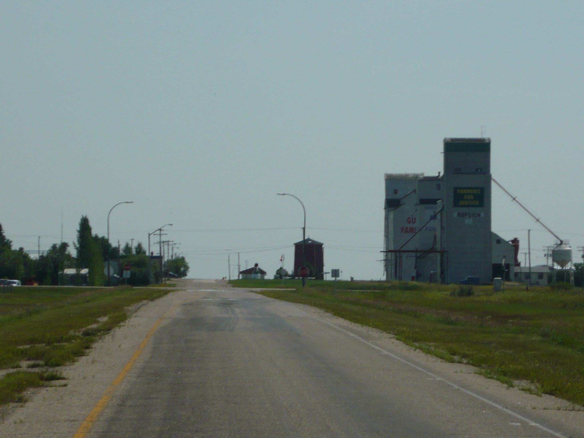 Grain elevators in Kenaston, Saskatchewan, Canada, as seen from Front Avenue, on the north side of town, traveling southbound (or southeasternly) toward the town.